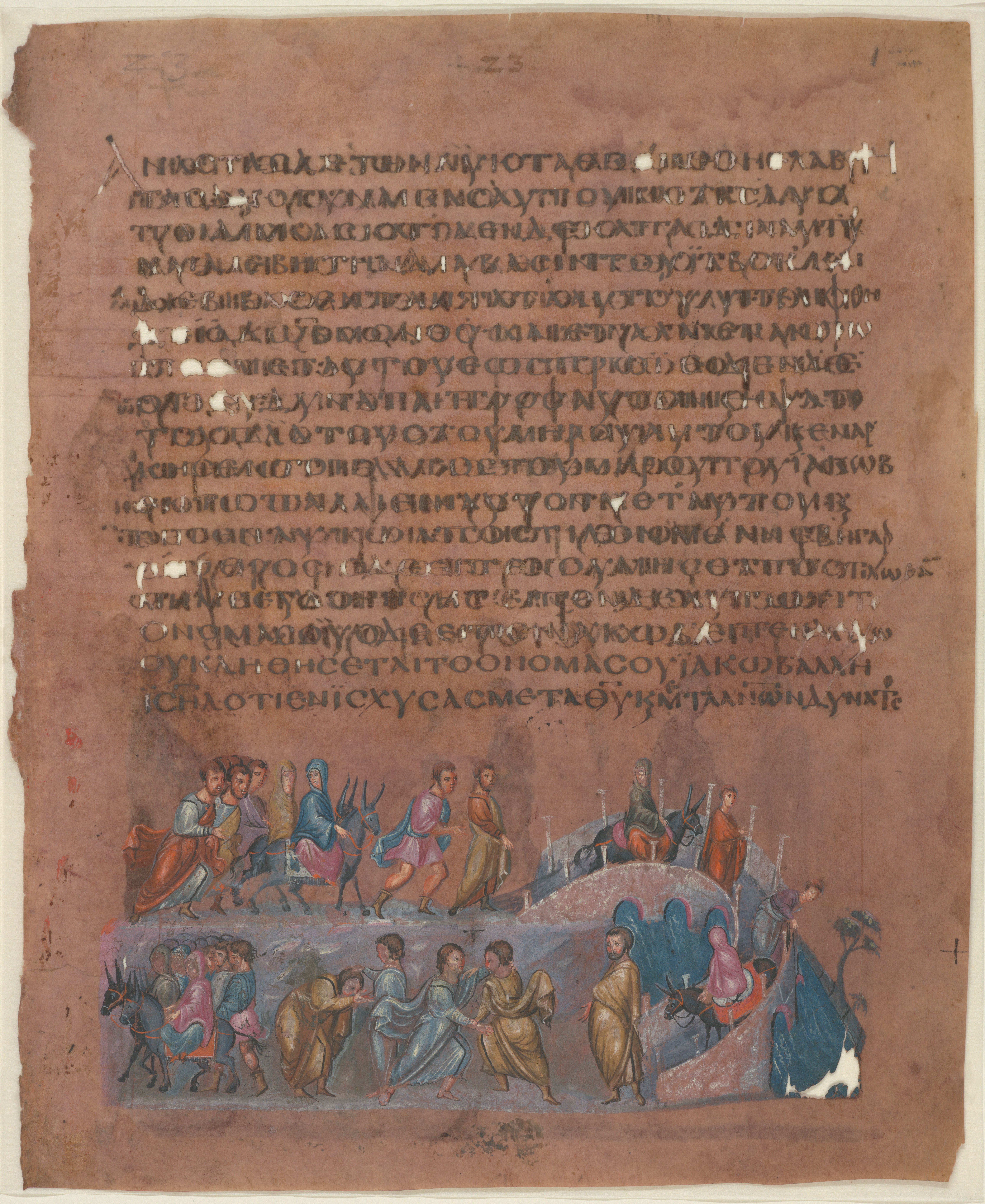 Image of page from the Vienna Genesis, a 1500 year old book.